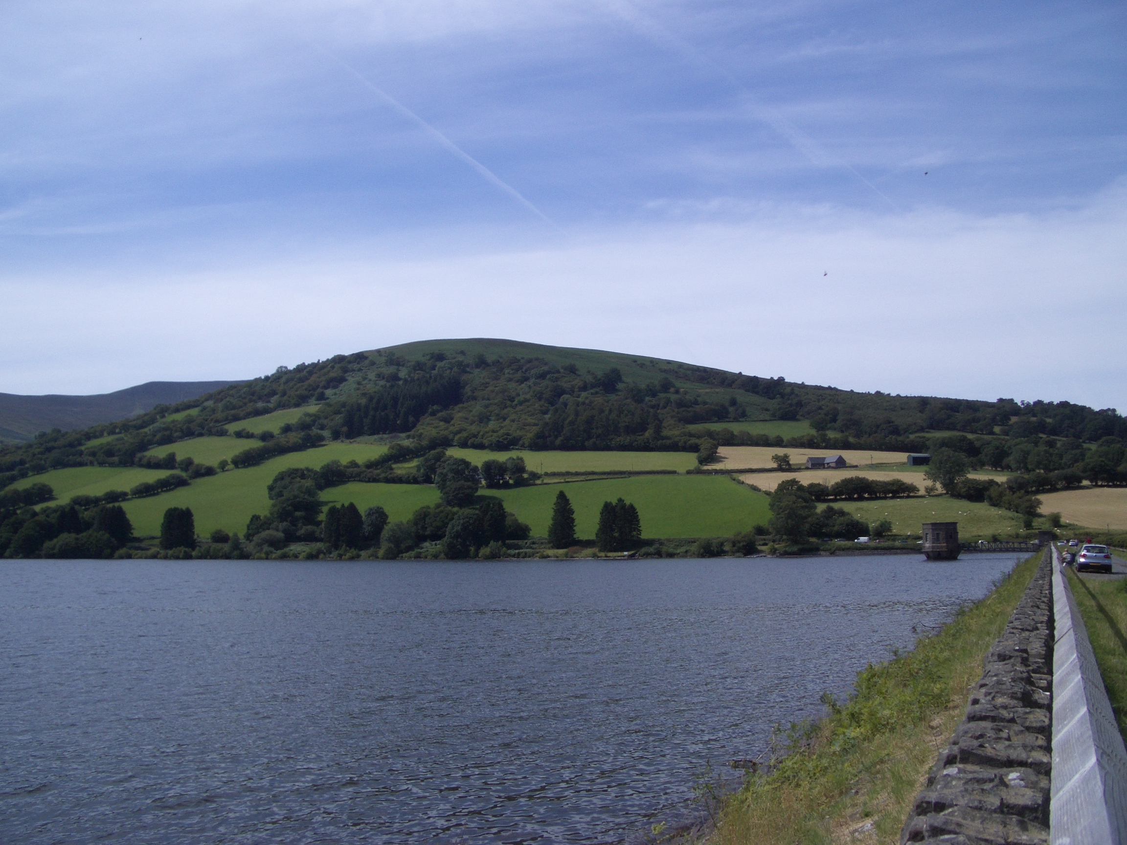 In the Brecon Beacons National Park in Wales, about halfway from Merthyr Tydfil to Brecon